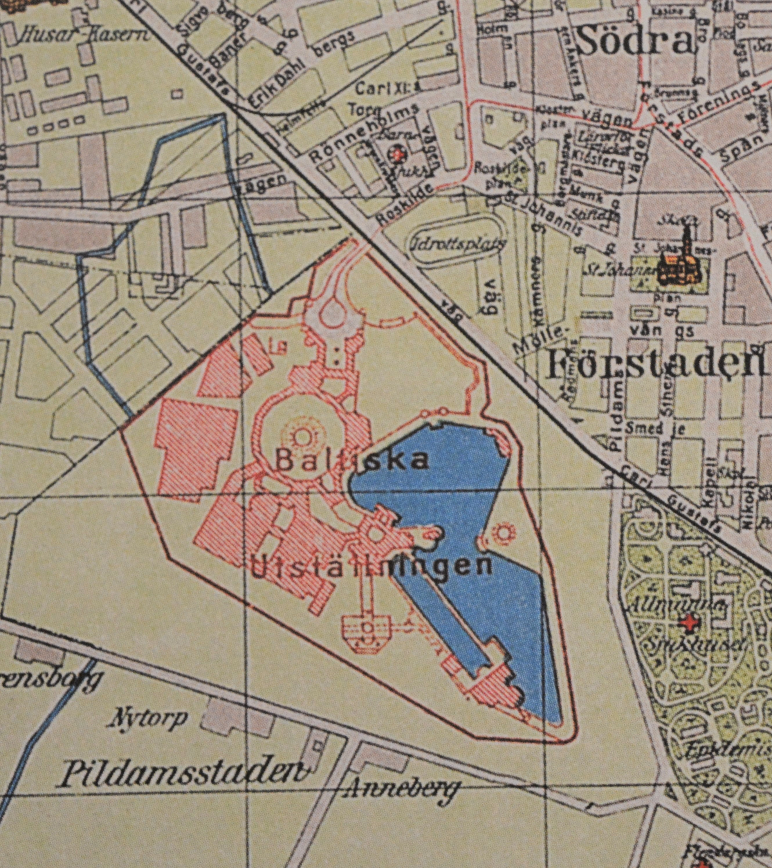 Baltic Exhibition area in Malmö 1914 in Pharus-Plan 1914.